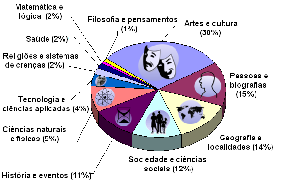 Wikipedia content by subject